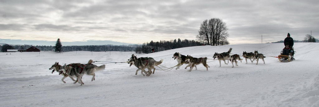 Dog Sled Race